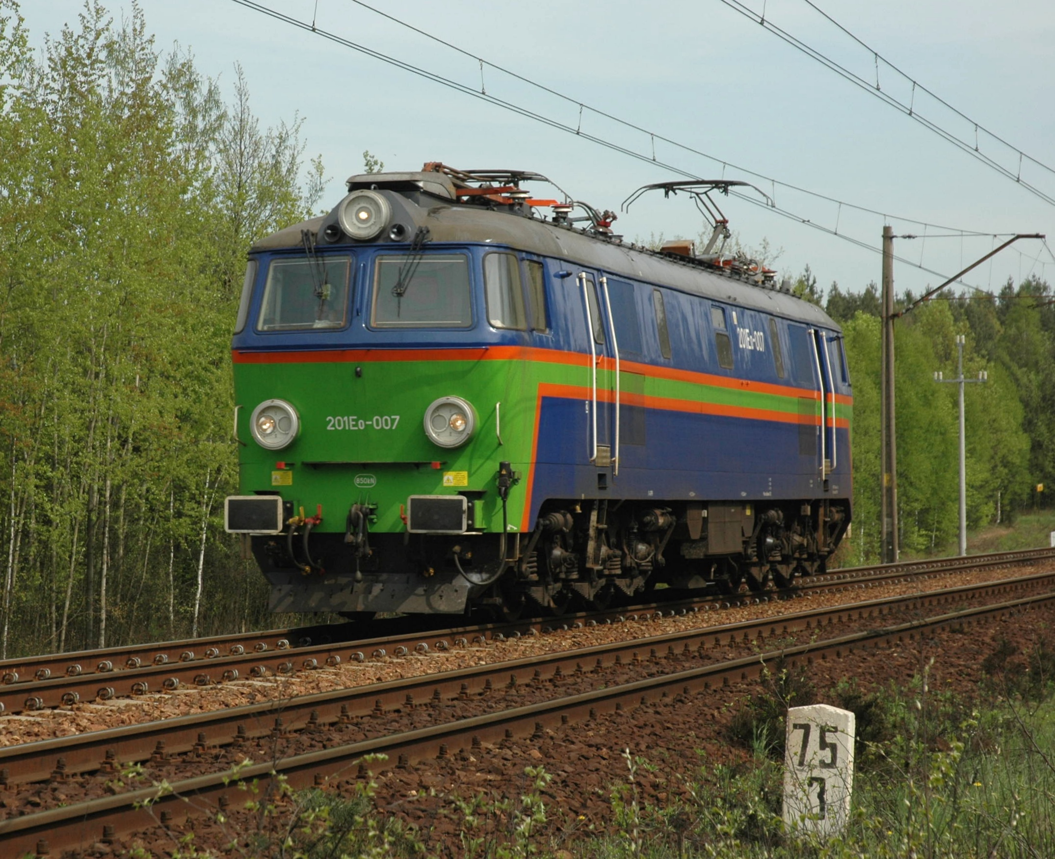 Locomotive 201Eo-007 (ex ONCF) of PHU Lokomotiv, between Wręczyca and Herby Nowe, Poland.